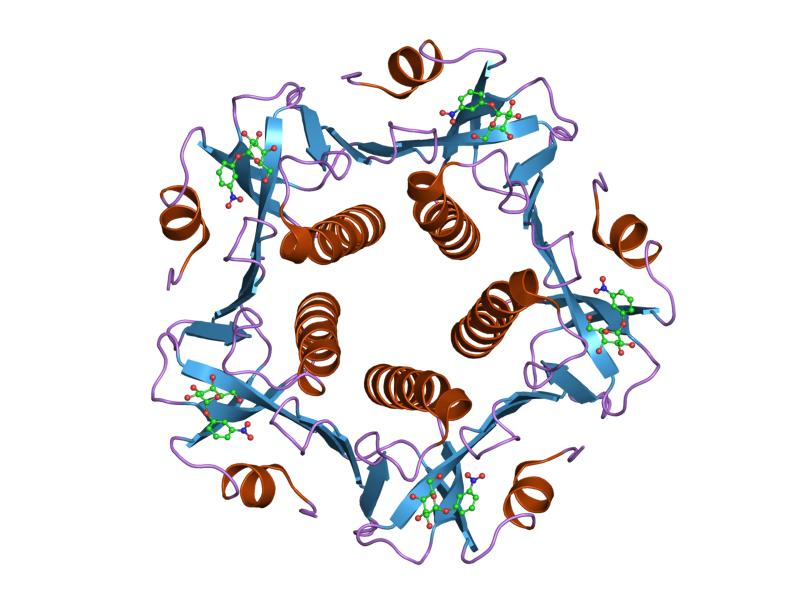 Cartoon representation of the molecular structure of protein registered with 1eei code.